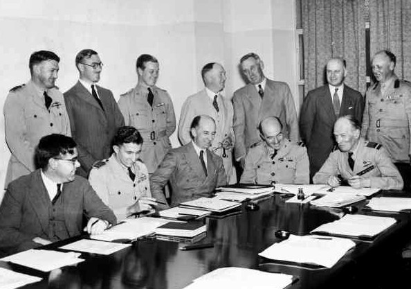 Royal Australian Air Force. Flying Personnel Medical Research Committee. Shows men seated at table, from left: Professor A. D. Wright (University of Melbourne), Group Captain G. Jones (Director of Training, R.A.A.F.), Sir David Rivett (Chairman of Commonwealth Bureau for Scientific and Industrial Research), Air Commodore Victor Hurley (Director of Medical Services, R.A.A.F.), Air Chief Marshal Sir Charles Burnett (Chief of Air Staff, R.A.A.F.); back row, standing, from left: Group Captain E. C. Wackett (Director of Technical Services, R.A.A.F.), Professor A. V. Stephens (University of Sydney), Squadron Leader J. G. Brown (second representative of R.A.A.F. Medical Directorate), Doctor S. V. Sewell (President, Royal Australasian College of Physicians), Doctor J. H. L. Cumpston (Commonwealth Director-General of Public Healtah and chairman of National Medical Research Council), Professor Harold R. Dew (University of Sydney) and Doctor C. H. Kellaway (Director of Walter and Eliza Institute of Research)